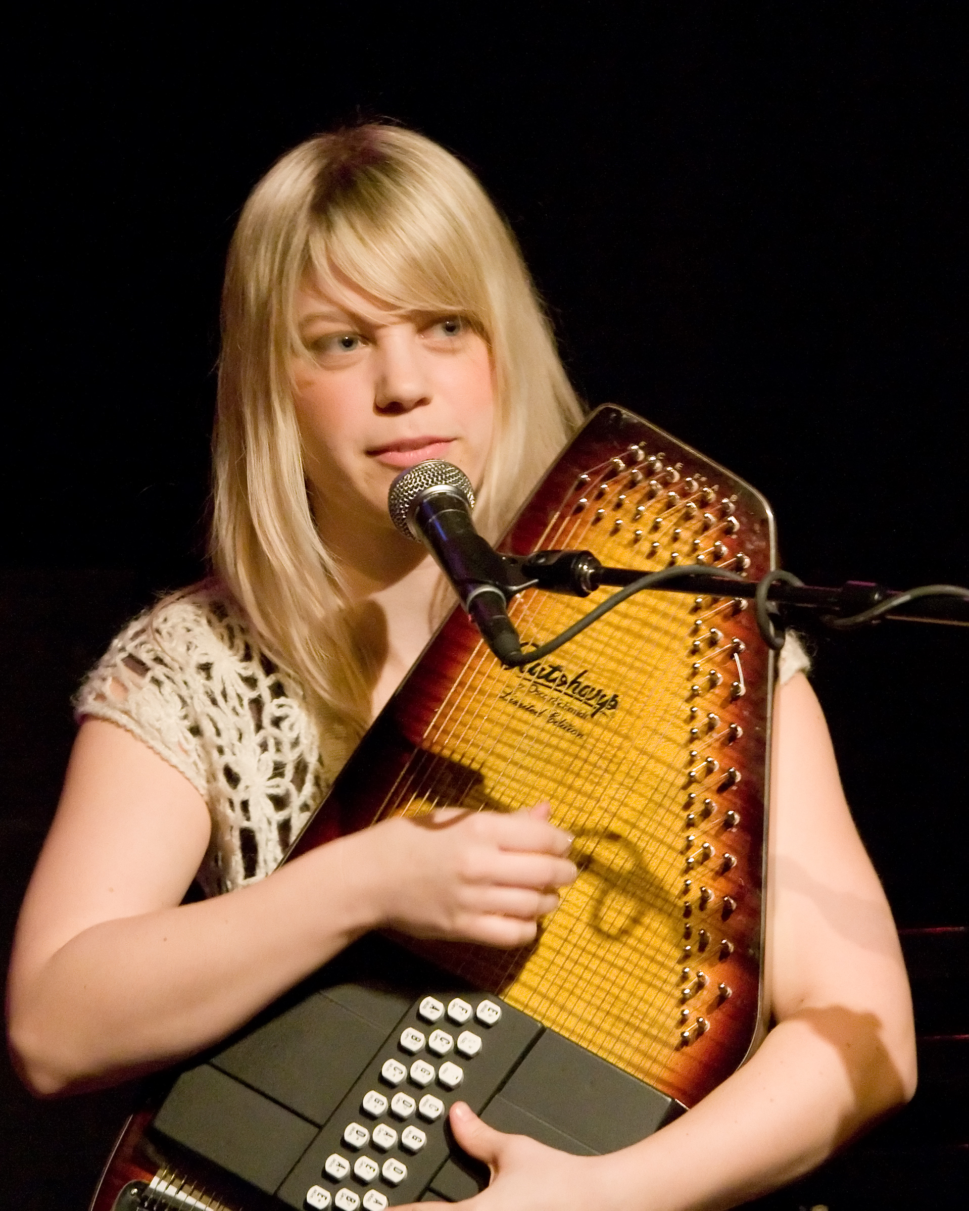 Basia Bulat plays guitar, autoharp, and hammer dulcimer and sings pleasantly in a low register. Her originals, influenced by folk and old time country, lack the hooks which would make them pop. The result is pleasant, easy to listen to, but in my case forgettable. But I enjoyed the show, and would definitely go see her again. High Noon Saloon, 08 Feb 08